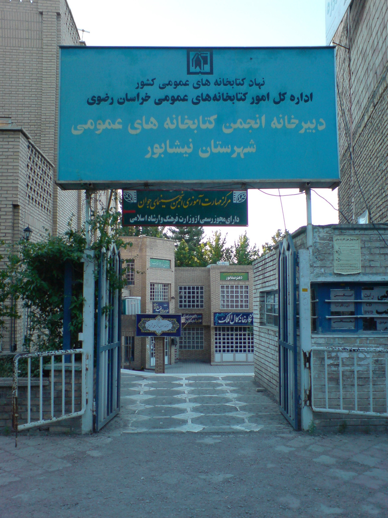 Shari'ati_Library_of_Nishapur